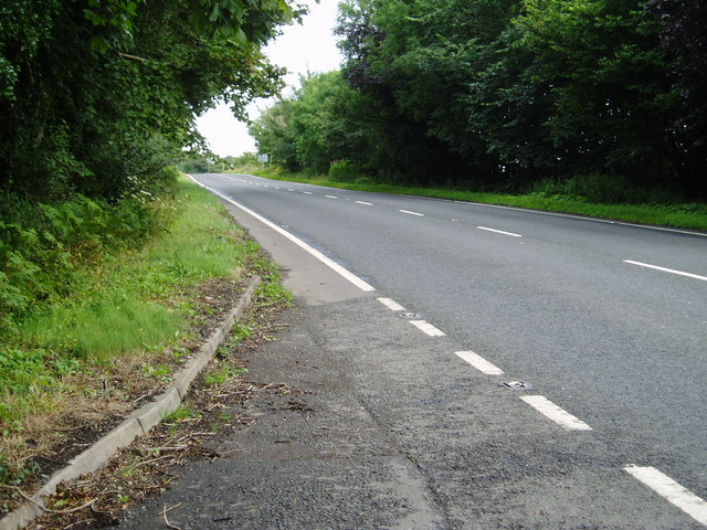 A75 Gretna-Stranraer Road near Carsluith. Picture taken from the east end of the lay-by, east of Carsluith Castle.